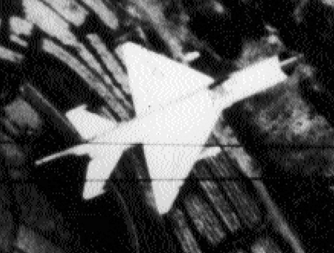 A North Vietnamese Mikoyan-Gurevich MiG-21 fighter (NATO reporting code "Fishbed") in flight over North Vietnam, circa in 1966.